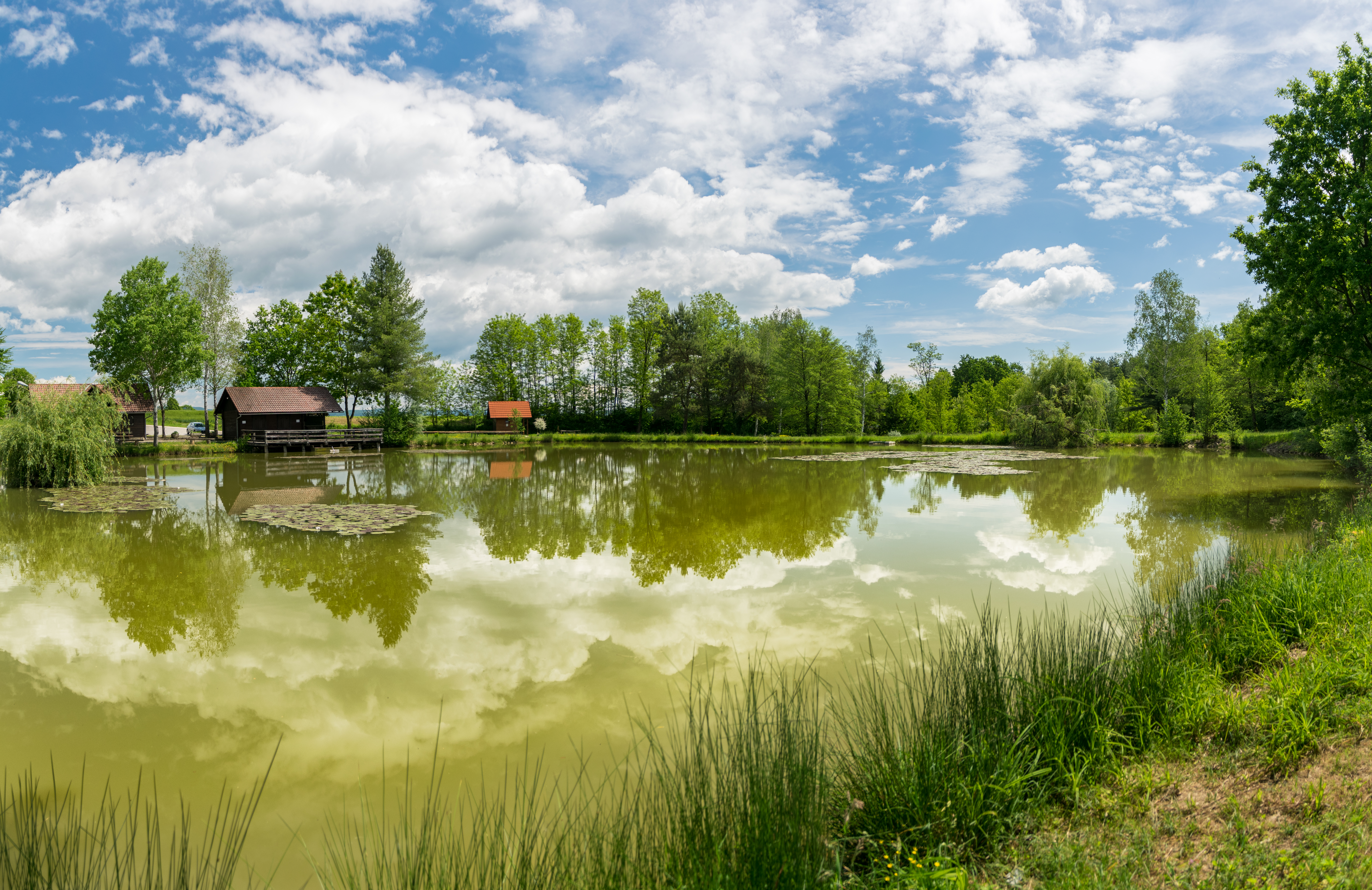 Behind the village of Prilozje there are three ponds that are connected to each other. Today the central and eastern ponds are used for breeding fish, mostly carp, tench, crucian carp, common bream, etc. The west pond is left to its own natural processes and represents an important natural habitat for many endangered and rare species that require a wet habitat.